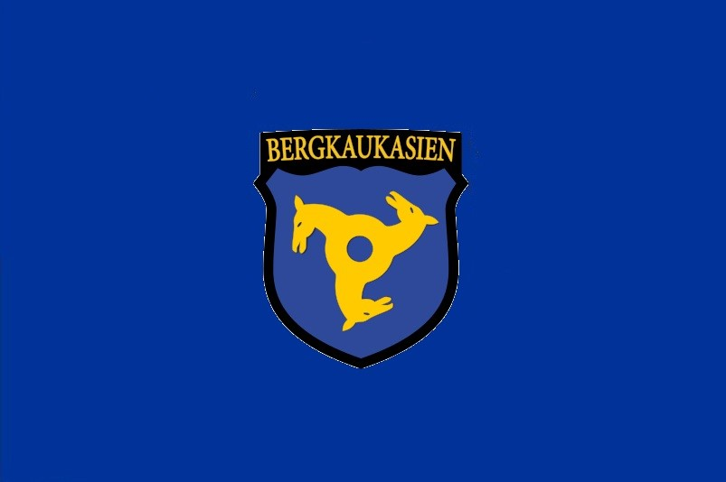 Banner of Mountain Caucasian Legion